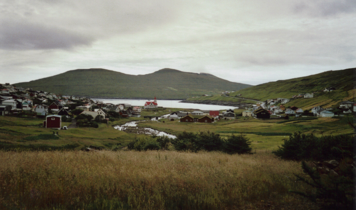 Sandavágur, Faroe Islands. View from thr park to the town center